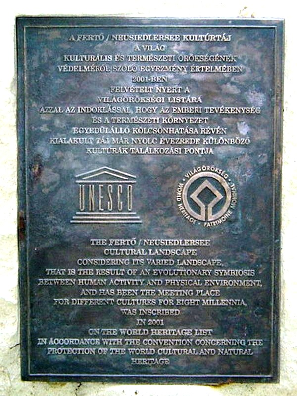 Plaque in Fertőrákos from the inscription on the world heritage list of the Fertő / Neusiedlersee cultural landscape in 2001.